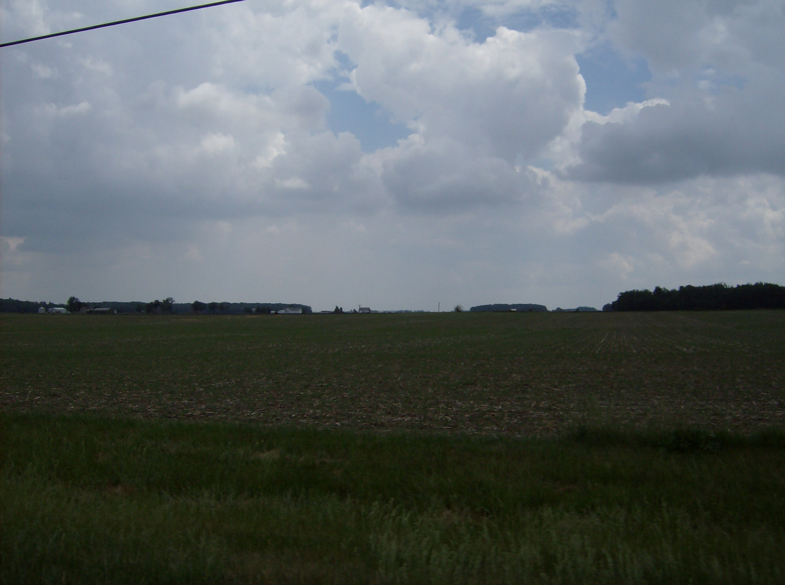 View of farmland in Jackson Township, Hancock County, Ohio, United States. Picture taken looking eastward from U.S. Route 68.